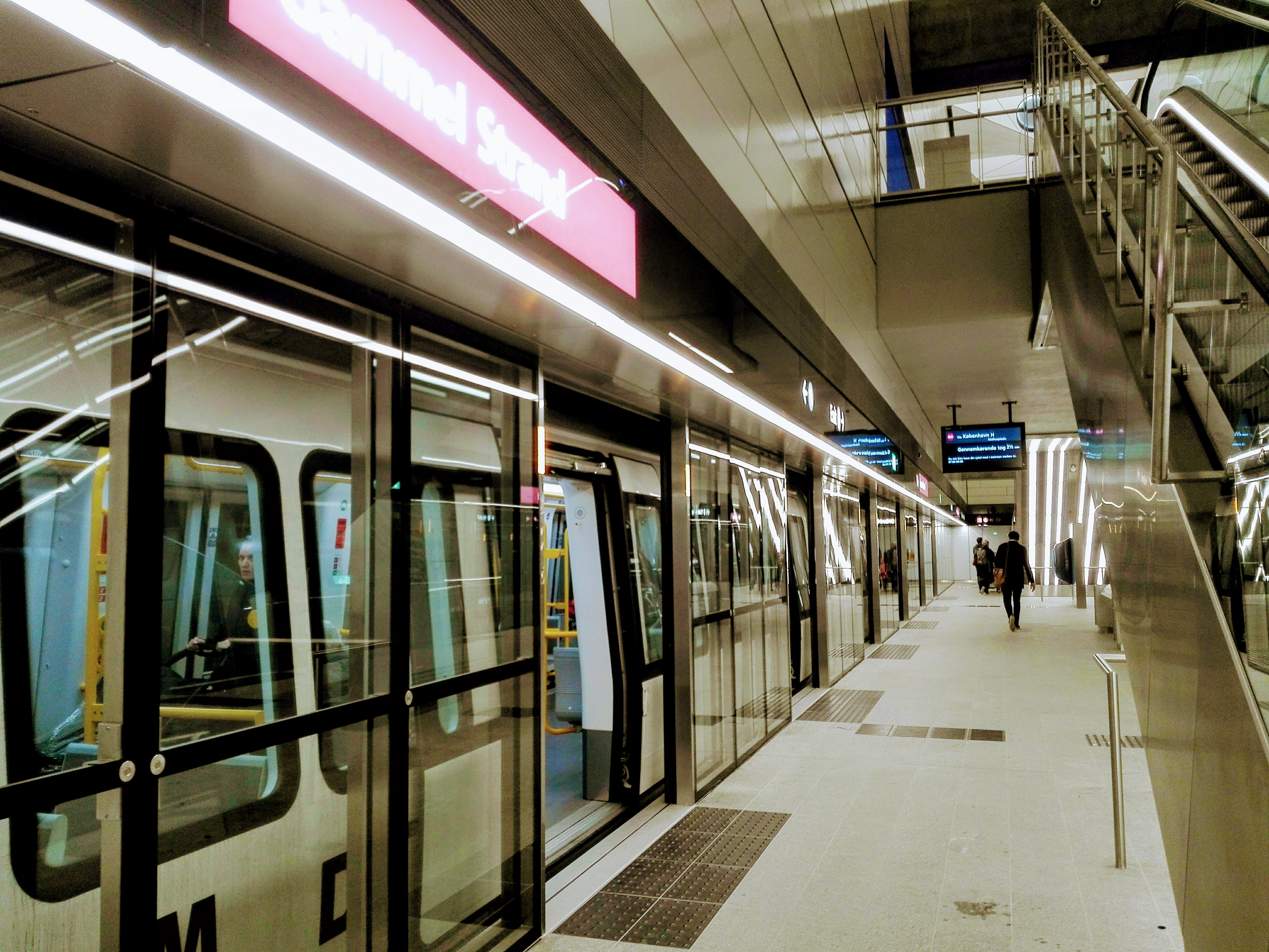 Platform level